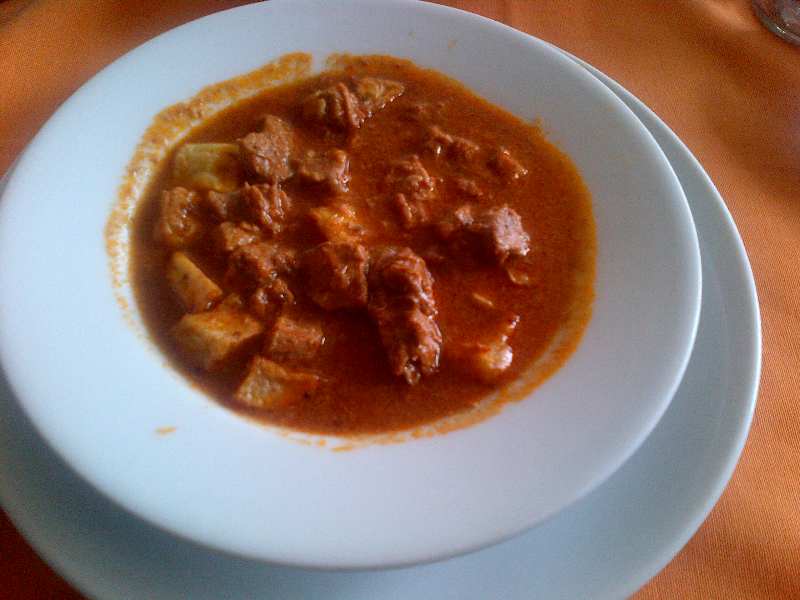 Tas kebap es un estofado de la cocina turca, hecho con carne de ternera.